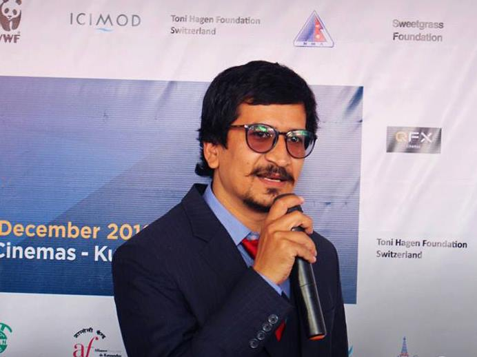 KIMFF 2016 | White Sun Red Carpet Nepal Premier